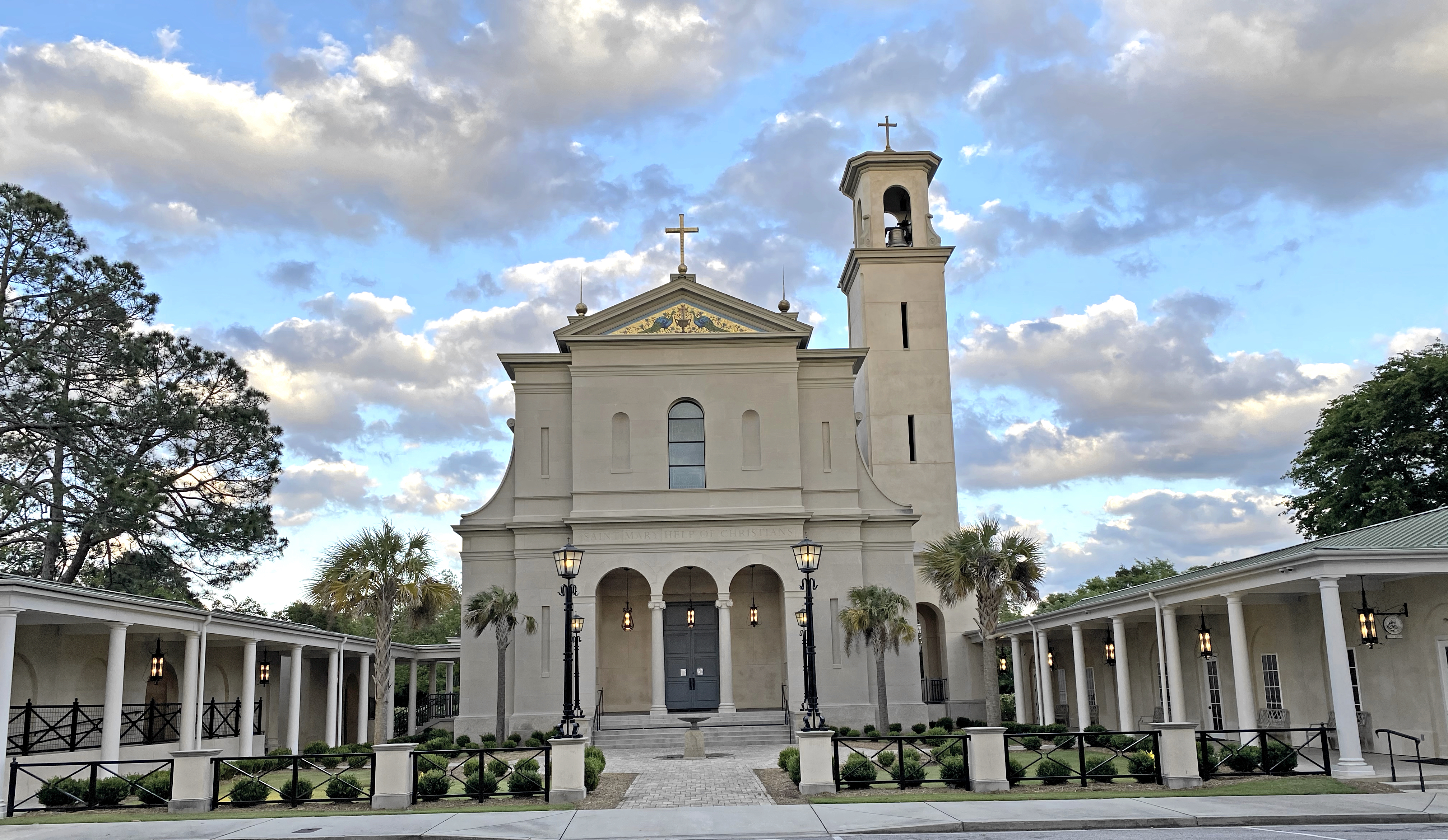 This is the facade of the parish's most recent church with its pediment mosaic, added in 2019. Architect - McCrery Architects of Washington, D.C.